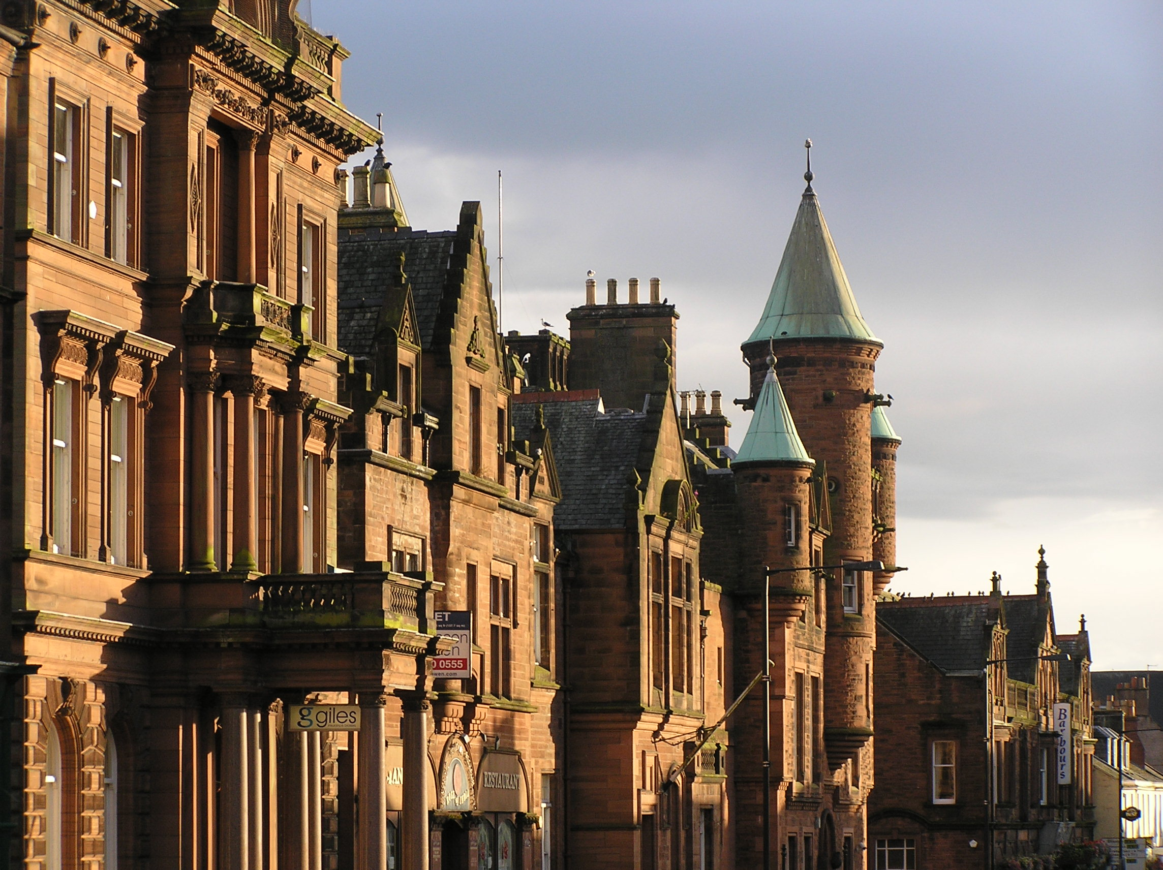 Red sandstone buildings, including the Sheriff Court, shops and offices, in Buccleuch Street, Dumfries, Scotland. Photographed early evening.